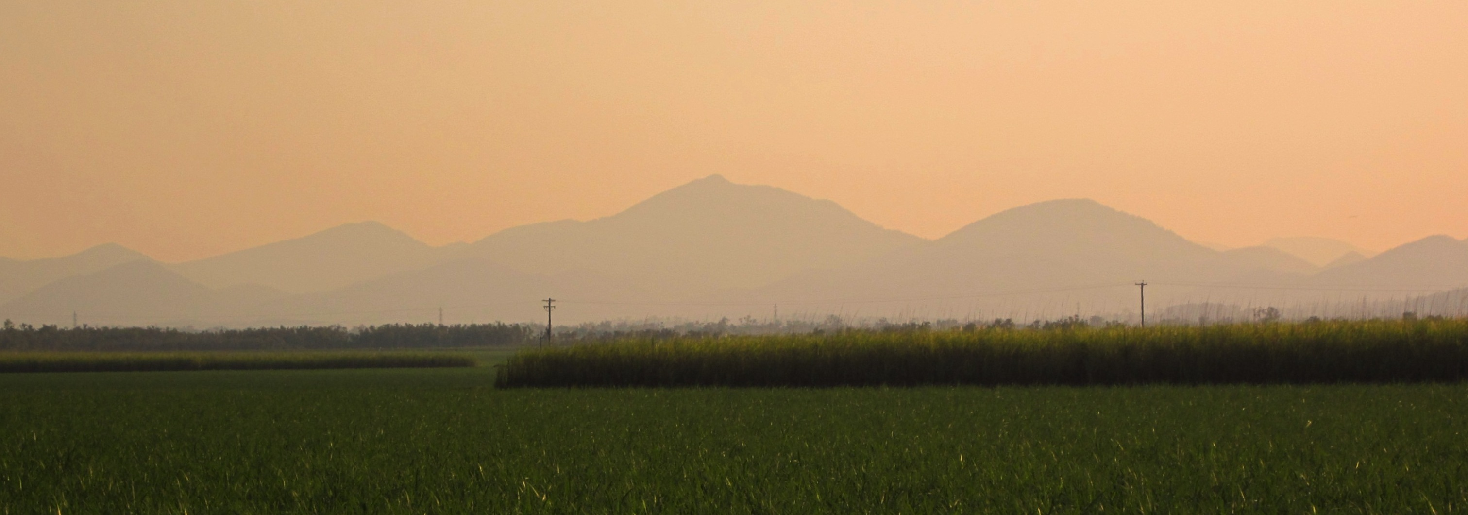 The mountain range behind Kelsey Creek near Proserpine.